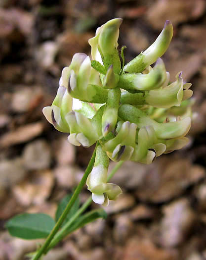 Rupertia physodes — California tea, Forest scurfpea. Taken on the Deerleg Trail in Malibu Creek State Park — Santa Monica Mountains National Recreation Area, Southern California. NPS photo, no copyright.